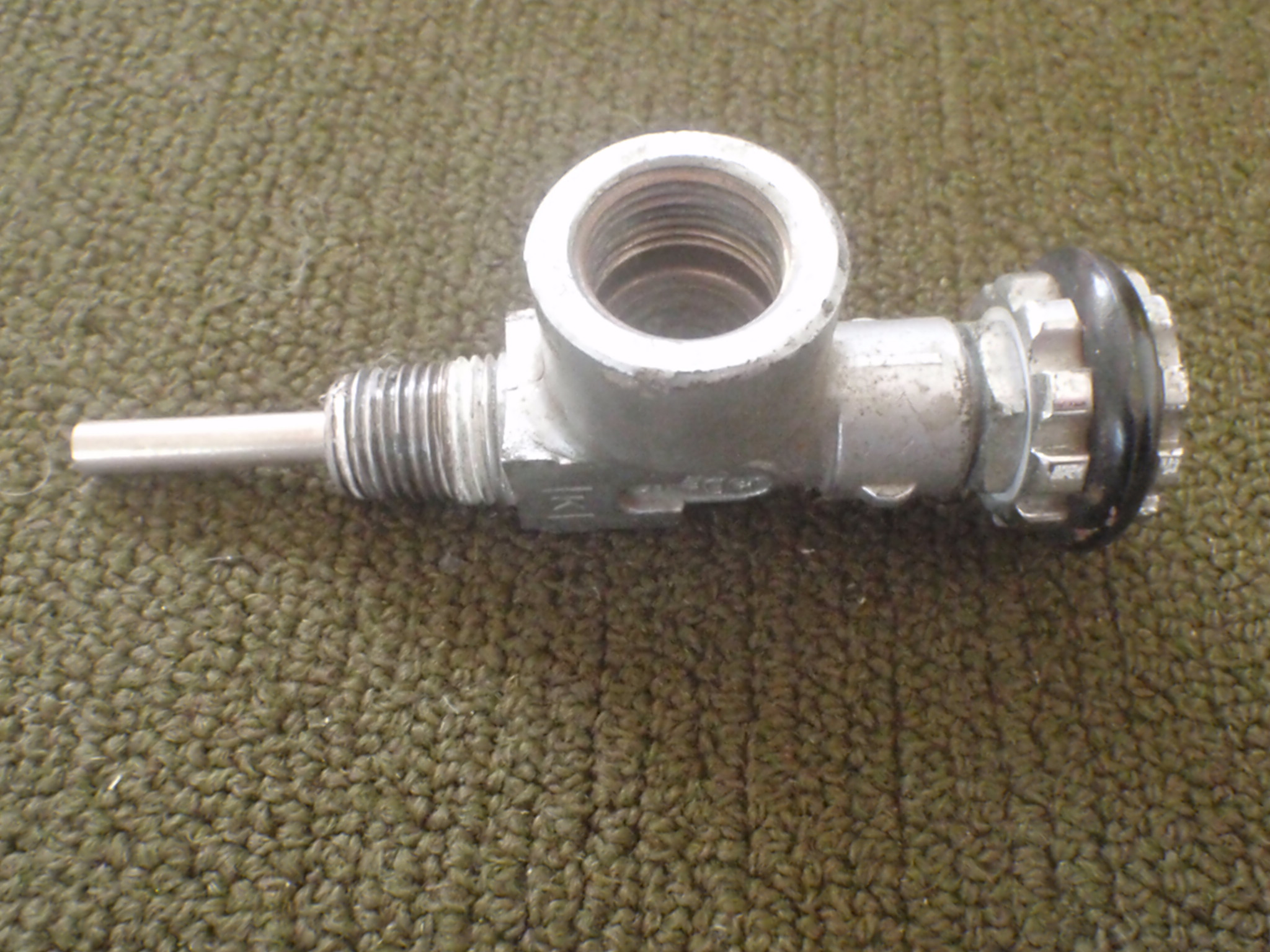 Dräger cylinder valve with taper thread for 300 bar service